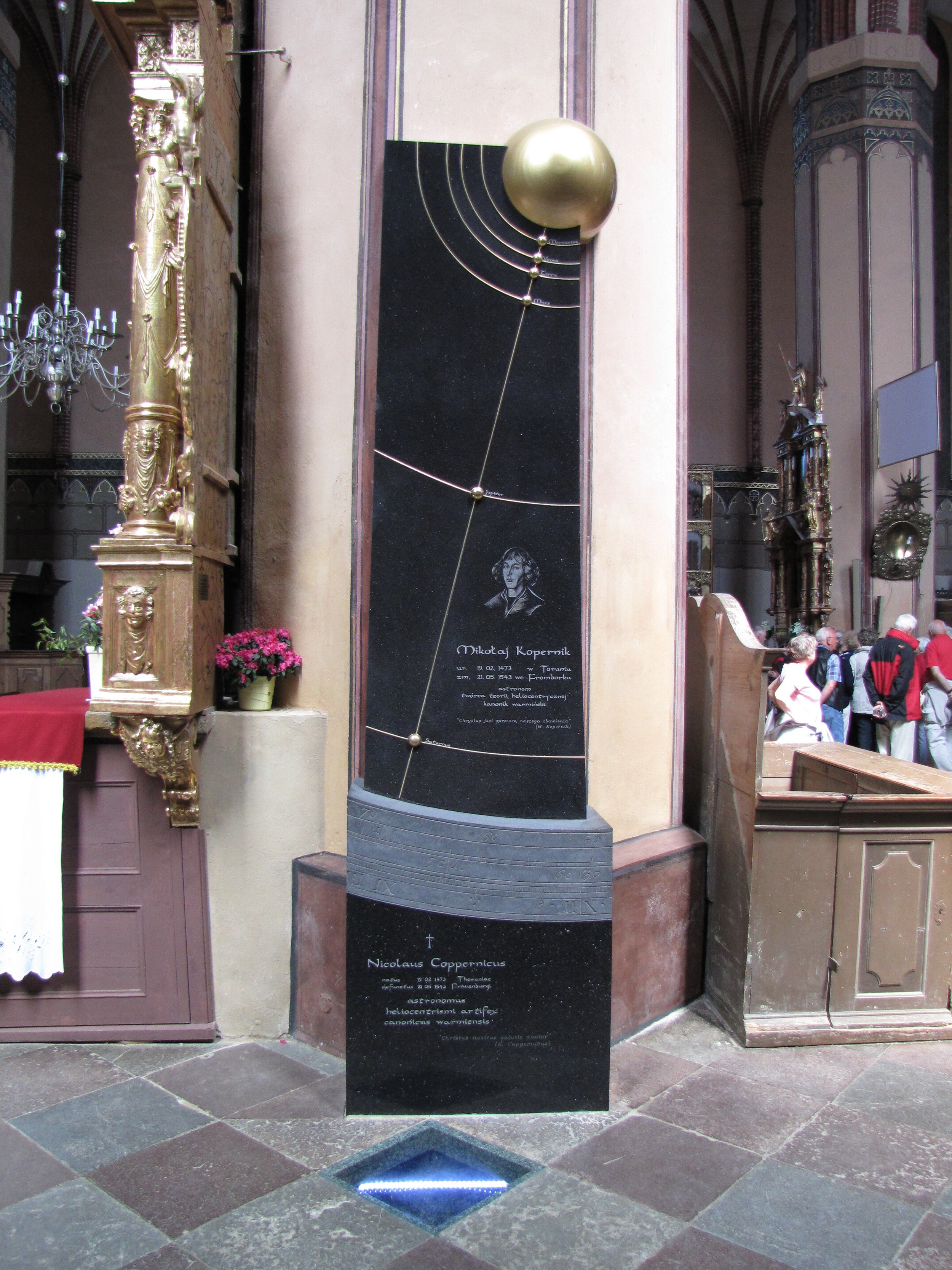 Grave of Nicolaus Copernicus in the Frombork Cathedral